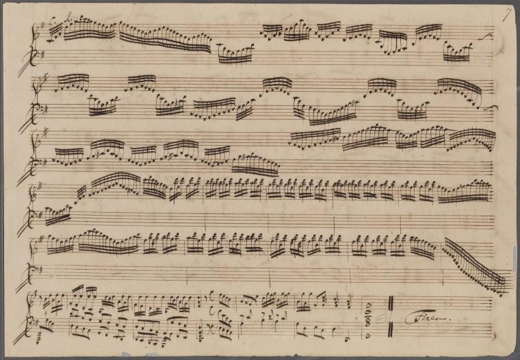 Page 7: final page of the aria Vo' fa guerra rom the opera Rinaldo - from Drexel 5856 an 18th-century manuscript containing music by George Frideric Handel, copied by John Christopher Smith